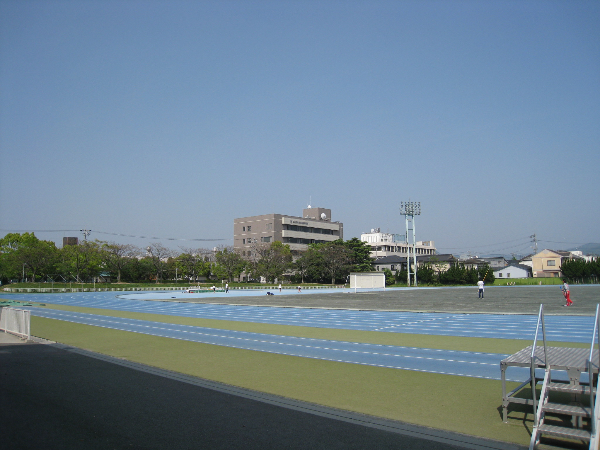 Toyohashi City Athletic Field (豊橋市陸上競技場), located at Imabashicho, Toyohashi, Aichi, Japan